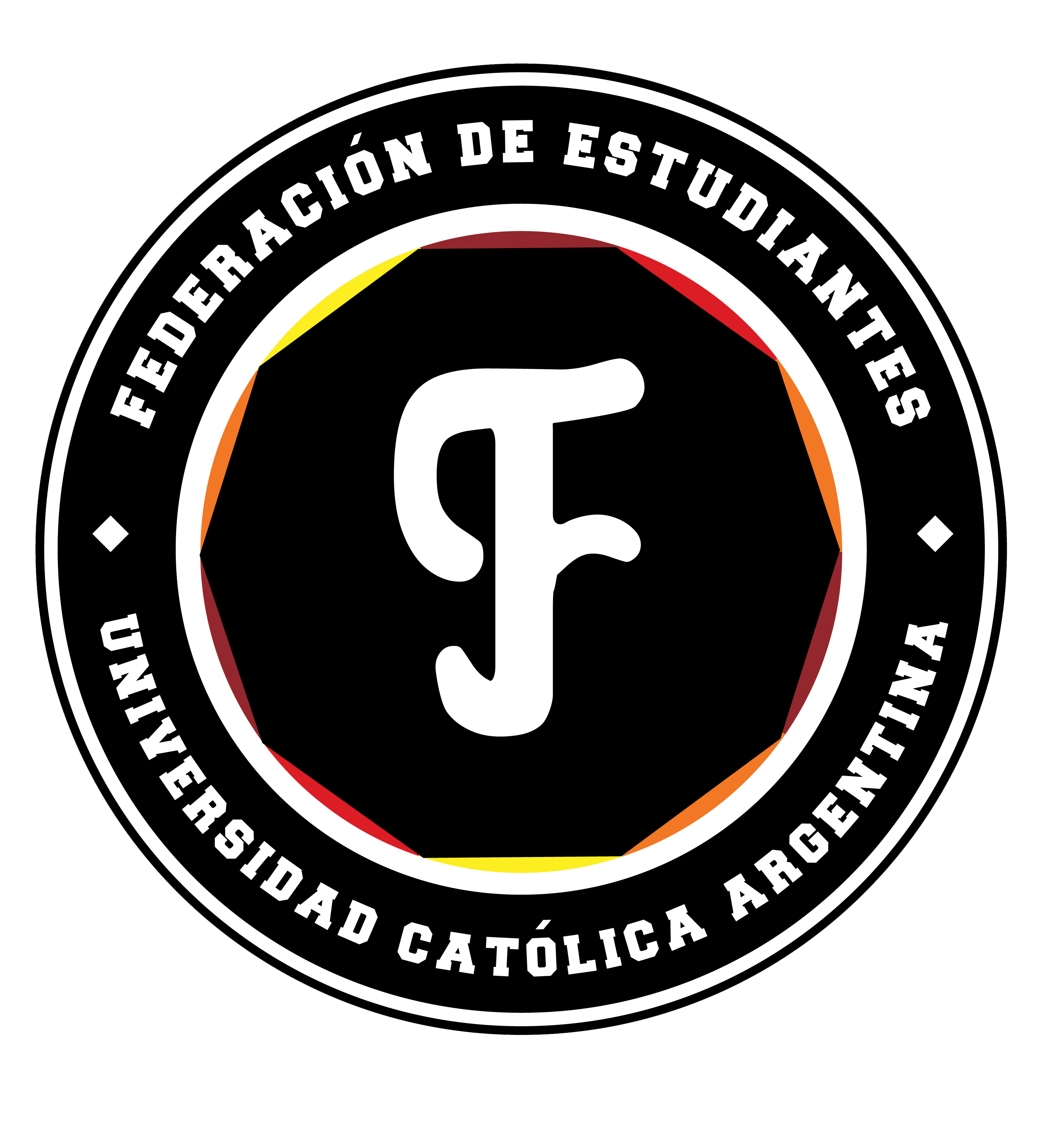 Coat of Arms of the Federacion de Estudiantes UCA.